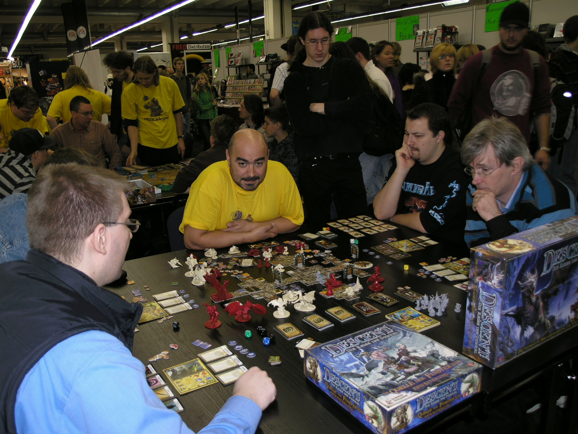 Personality rights warning Although this work is freely licensed or in the public domain, the person(s) shown may have rights that legally restrict certain re-uses unless those depicted consent to such uses. In these cases, a model release or other evidence of consent could protect you from infringement claims.